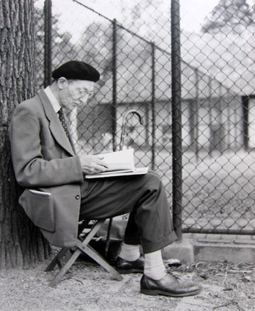 Dutch graphics artist Johan Briedé working in Artis Zoo, Amsterdam